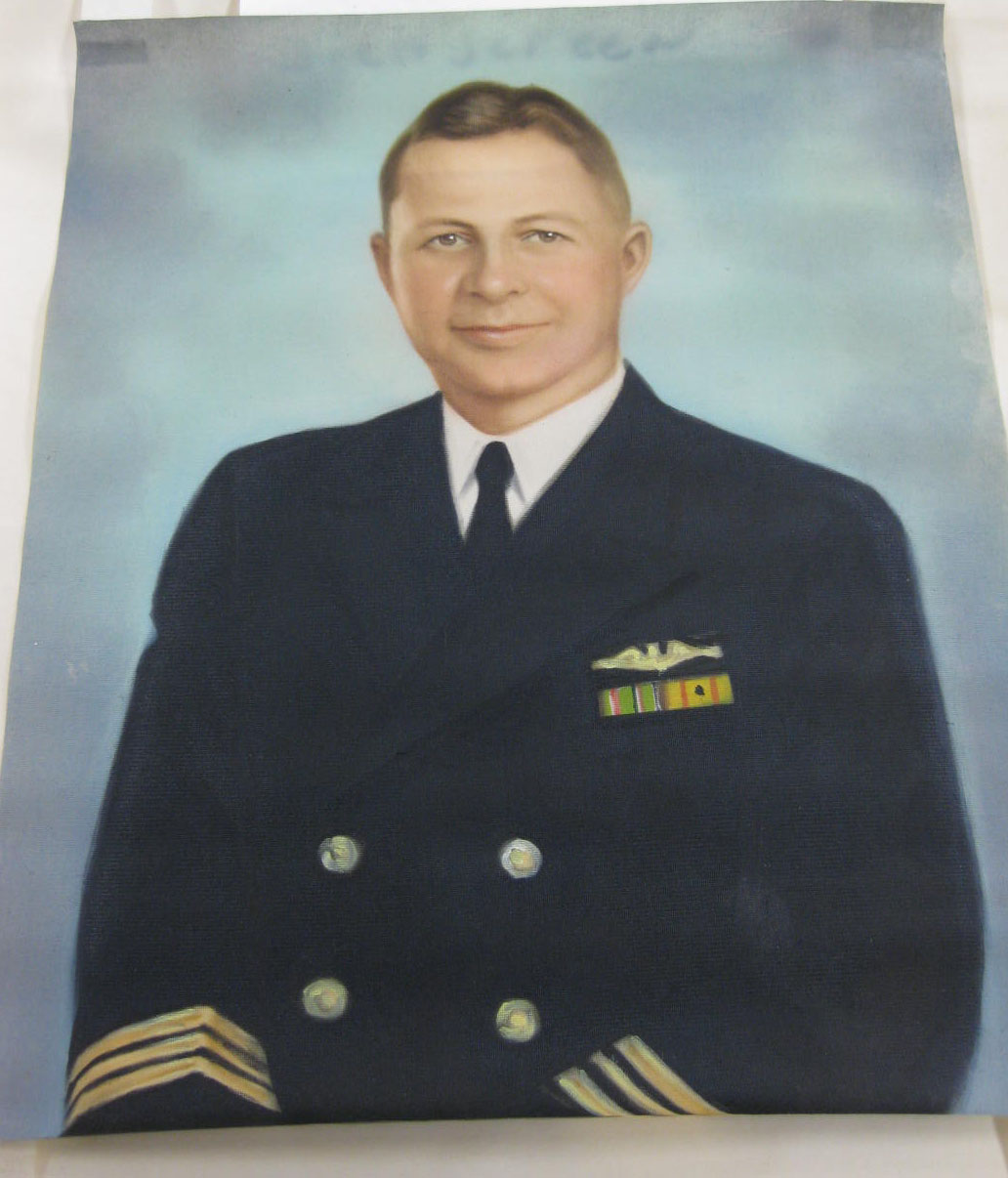 Accession: 70-733-M Photograph.,Colorized, LCDR. John A. Bole. 10' H x 8" W LCDR Bole was the Commanding Officer for the USS AMBERJACK SS-219. The AMBERJACK was commissioned on 19 June 1942. She was reported as presumed lost on 22 March 1943 while covering the traffic routes from Raboul and Buka to Shortland Island . No conclusive explanation was ever found as to the cause of her loss. LCDR Bole was awarded the Navy Cross for outstanding perfomance as her Commander. Collection of Curator Branch; Naval History and Heritage Command